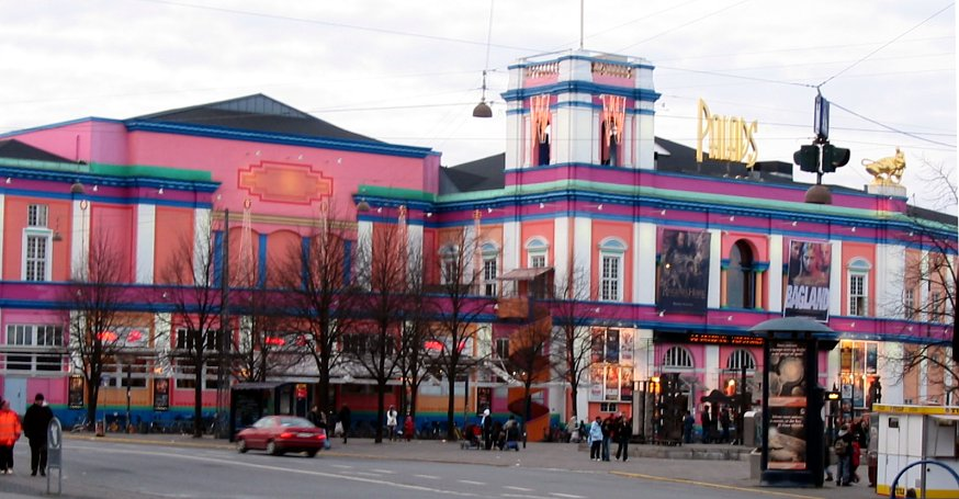 Palads is a movie theatre in central Copenhagen, Denmark. Ornaments by Poul Gernes